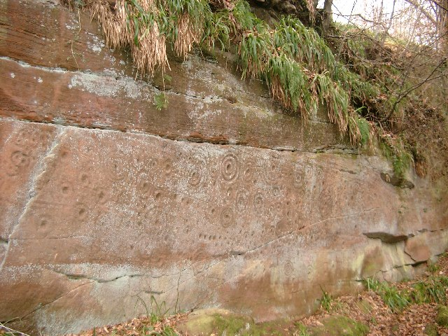 Cup and ring markings near Mauchline. The Cup and Ring markings consist of over 200 markings some of which are unique to the area. The carvings have been dated between the Neolithic and early Bronze age and reckoned to have been made over a period of about 1000 years. The marking would have eroded long ago if they had not been made on this unusual face of "hard sandstone". Despite graffiti from the 19th century, the markings lay unnoticed again until 1986 when a local man walking his dog spotted them. The site is among the top 10 most important "Cup and Ring" sites in Britain.